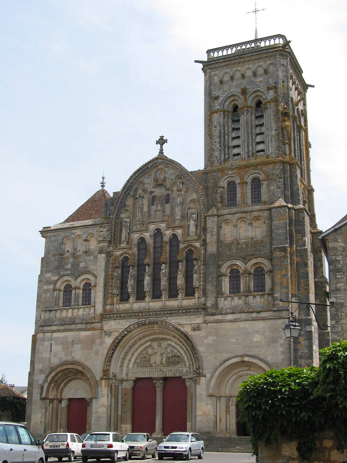 Vézelay (Yonne - France), western façade of Saint Magdalene Basilica (XII/XIIIth centuries ant important restorations by Viollet-le-Duc between 1840 and 1859).